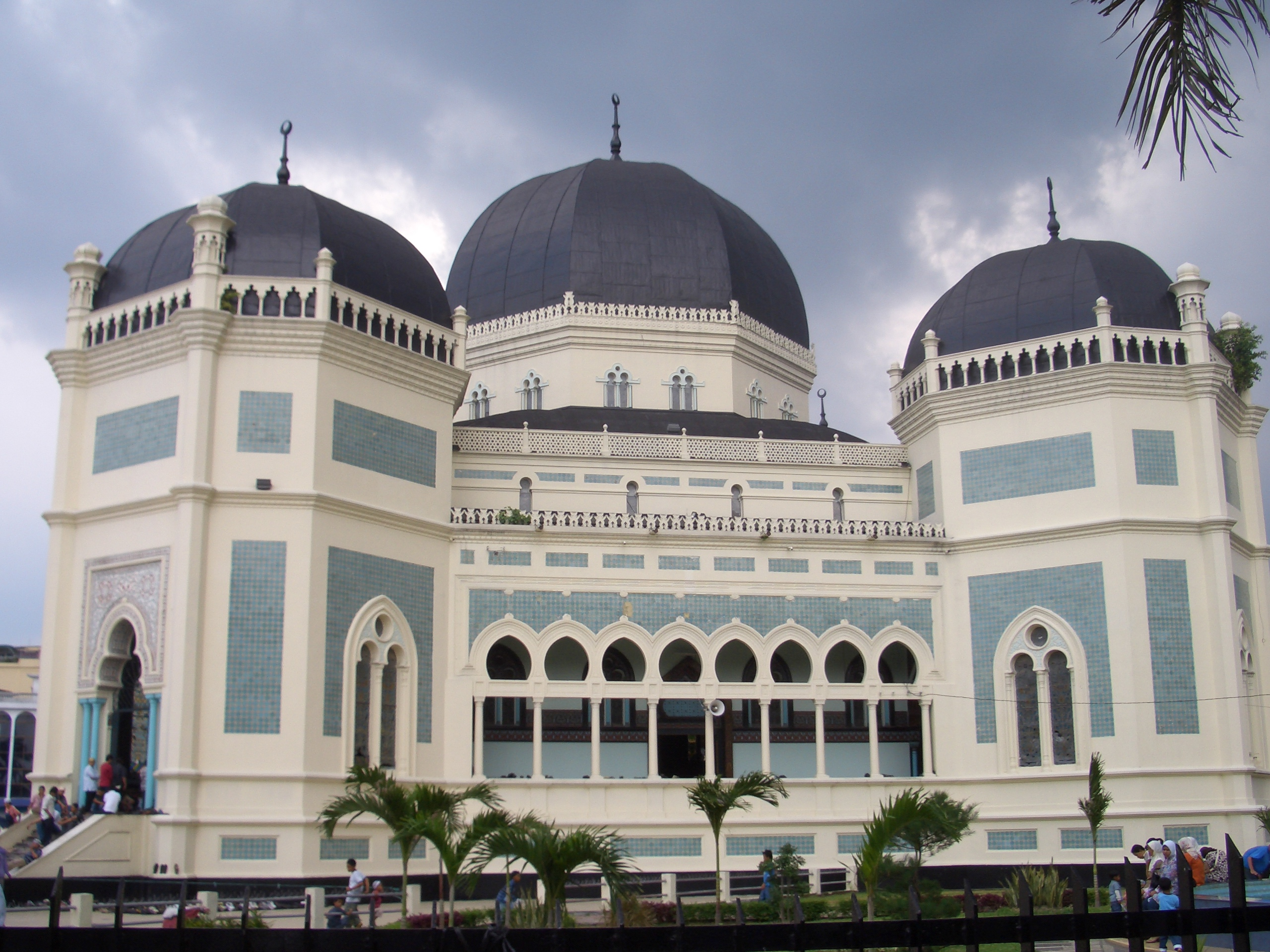 the great mosque of Medan, Indonesia